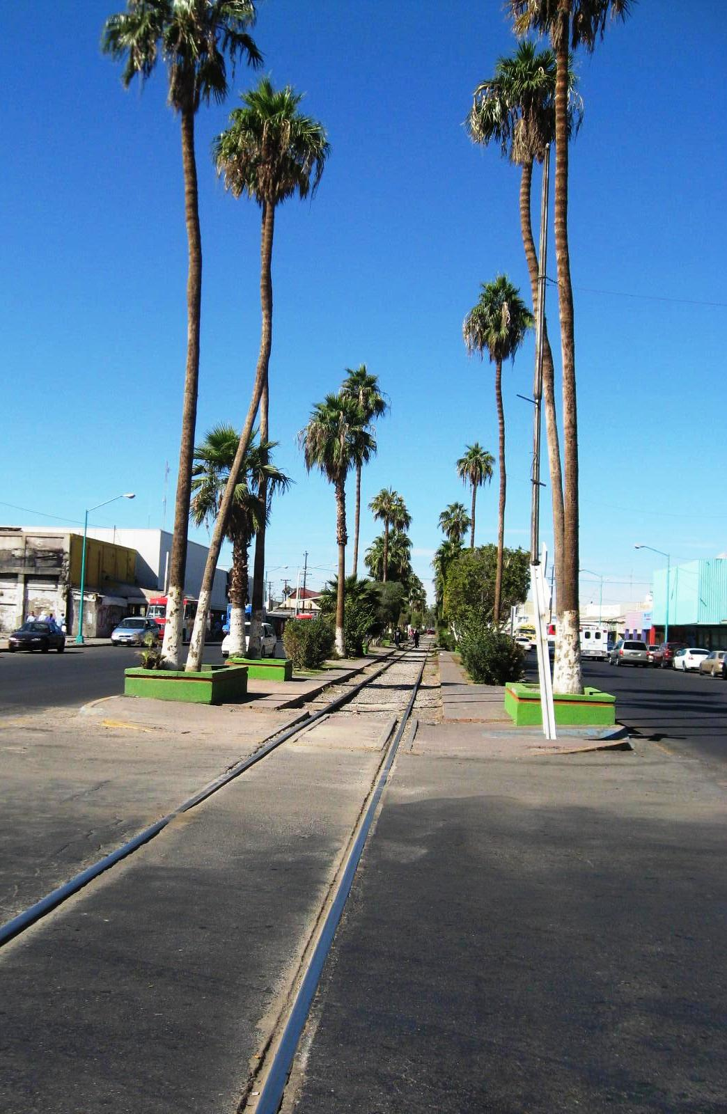 Rail tracks on Avenida Lopez Mateos — in Mexicali, NE Baja California state, México. Route north to the border crossing in Mexicali.